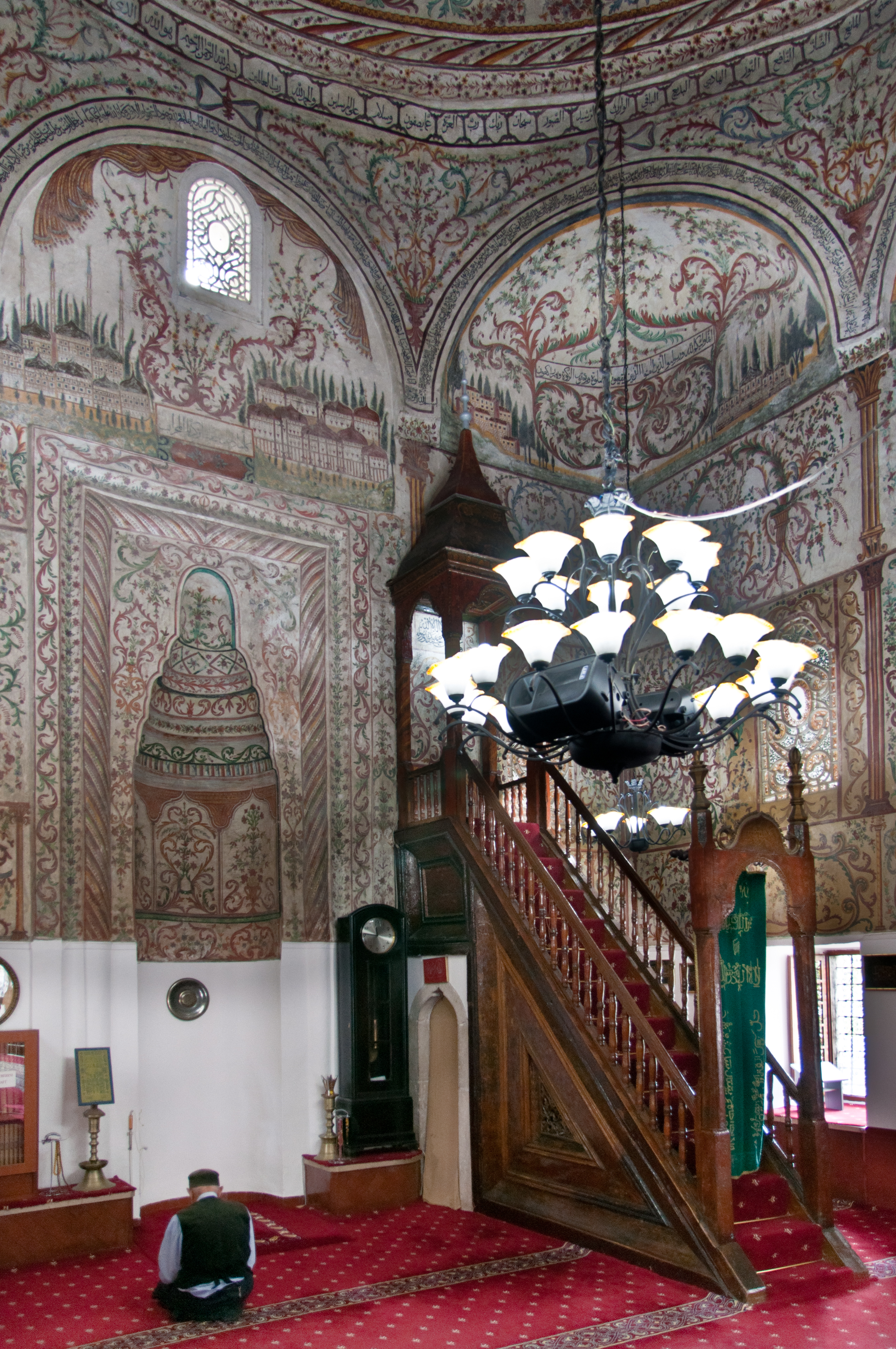 Et'hem Bey Mosque, Tirana